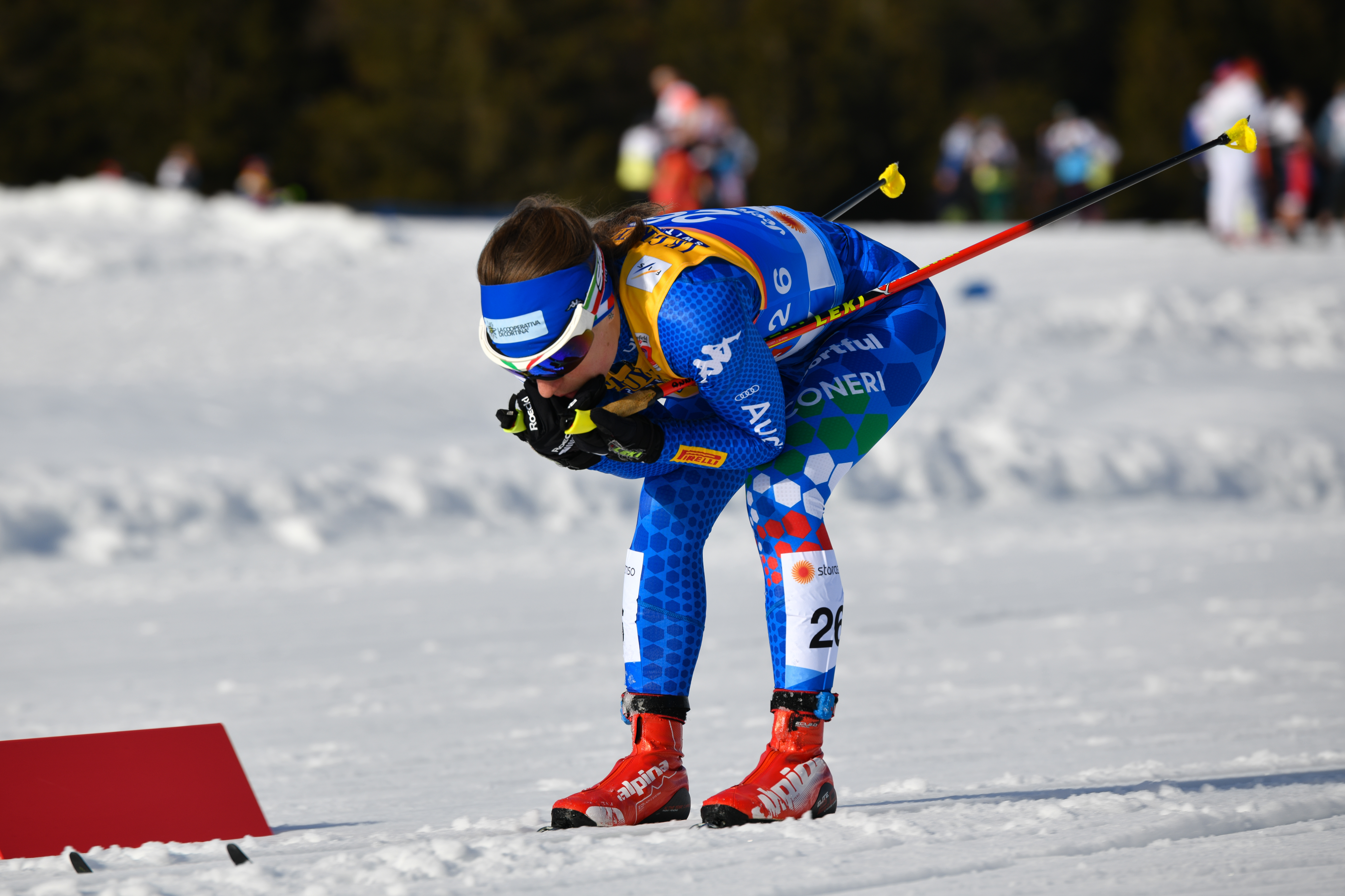 FIS Nordic World Ski Championships Seefeld 2019 - Ladies Cross Country 10km. Picture shows Anna Comarella (ITA).